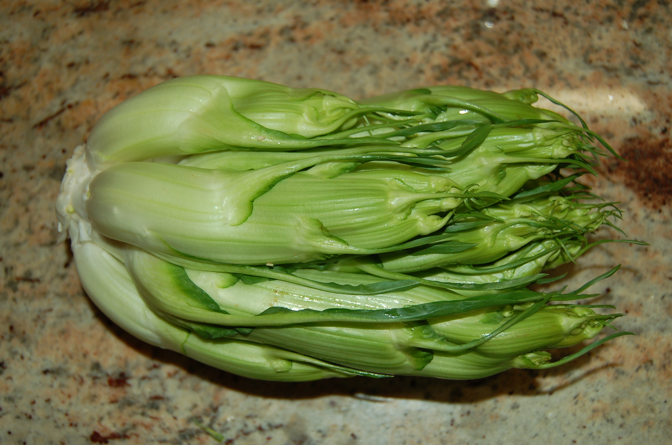 Puntarelle sold in the market of Torino (Italy). This is an endemic vegetable of Italy, and is formed by the sprouting stems of Catalogna chicory. They are cut in thin longitudinal slices, put in cold water where they curl, and eaten raw in salad with only some oil and crushed anchovies. A delicacy.